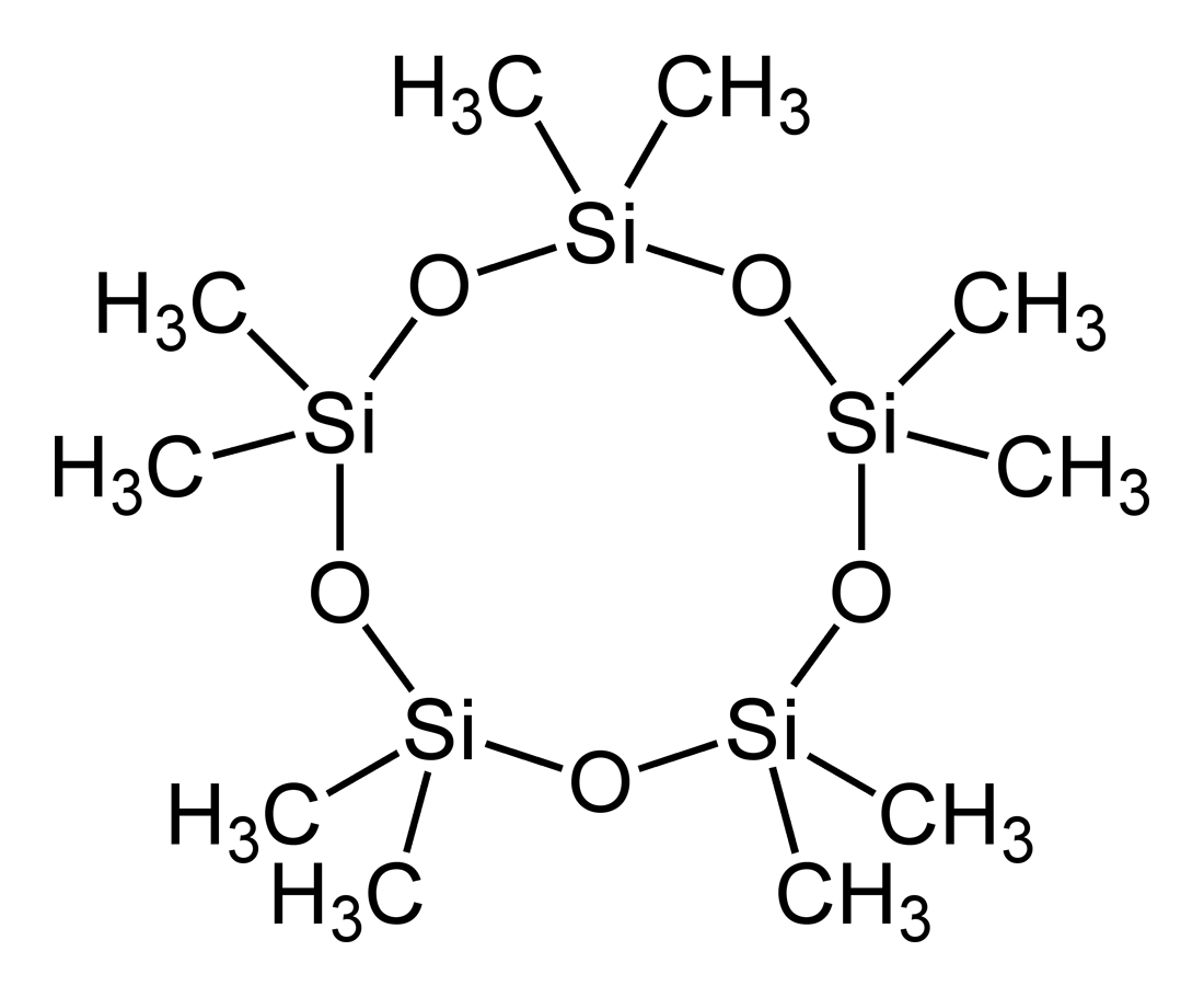 Structural formula of the decamethylcyclopentasiloxane molecule, cyclo-(Me2SiO)5, i.e. C5H30O5Si5. Structure from CRC Handbook, 88th edition.